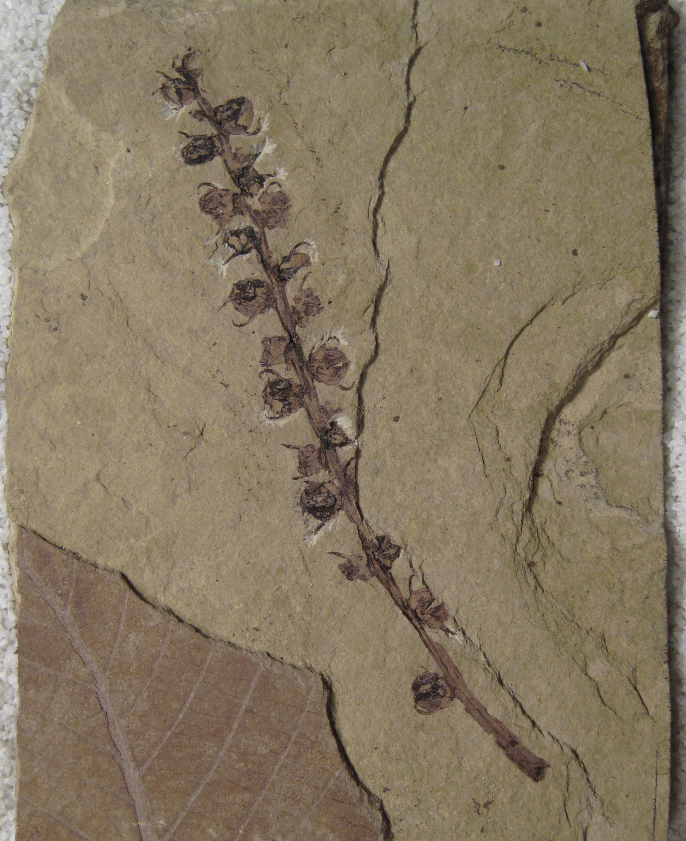 An incomplete, approximately 6 cm (2.4 in) long, Pentacentron sternhartae Infructescence. Holotype specimen. Ypresian, Latest Early Eocene; Tom Thumb Tuff member, Klondike Mountain Formation, Republic, Washington, U.S.A. Stonerose Interpretive Center, Republic, Ferry County, Washington, U.S.A. Collection number SR 93-08-02